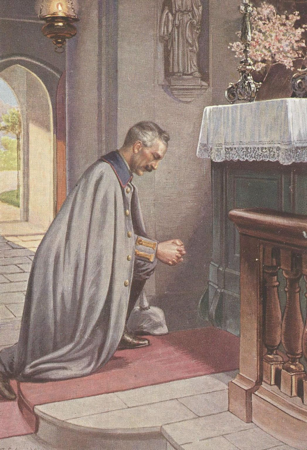 William II praying, postcard WW I